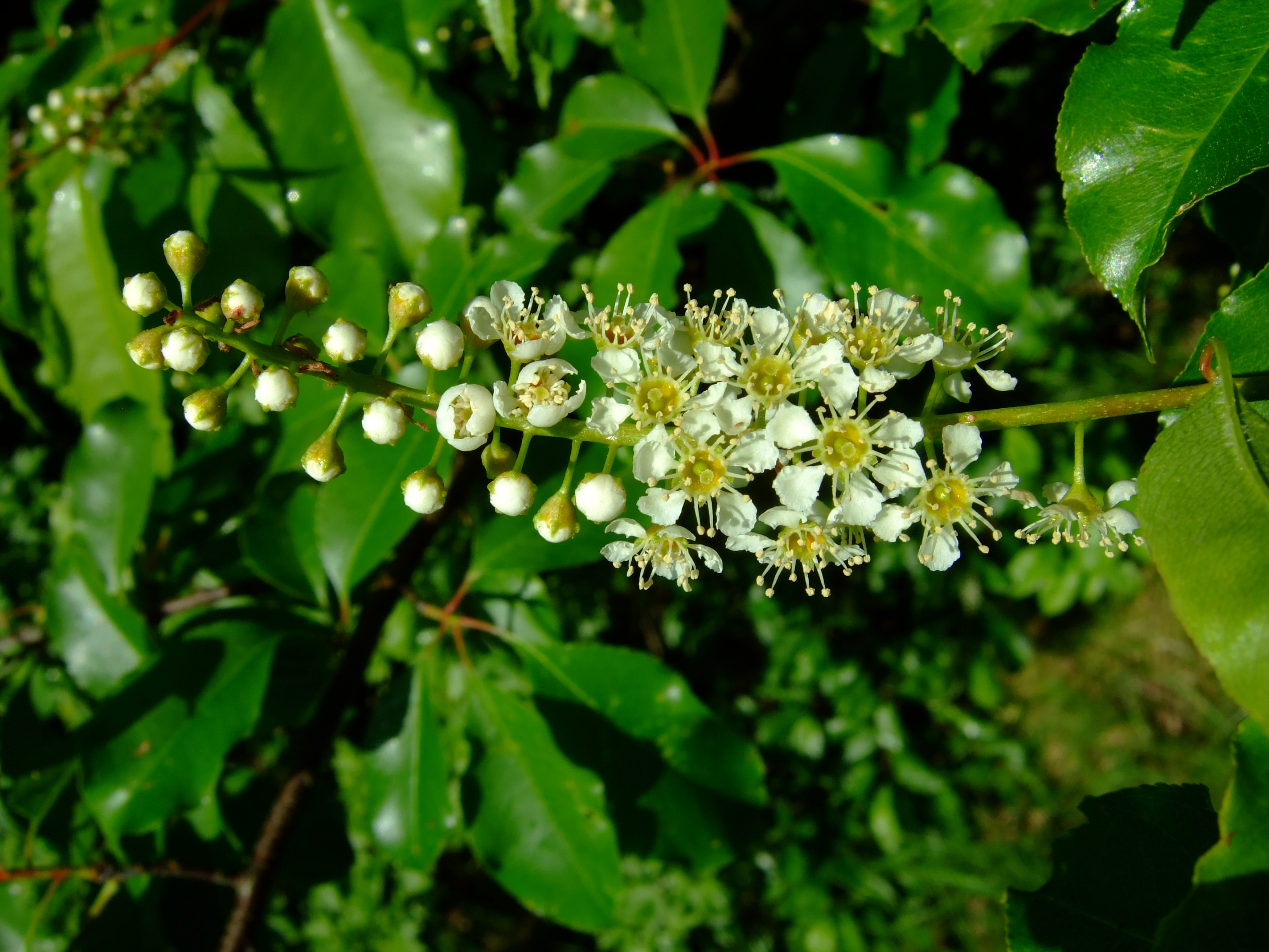 Black Cherry flowers in Hamburg.